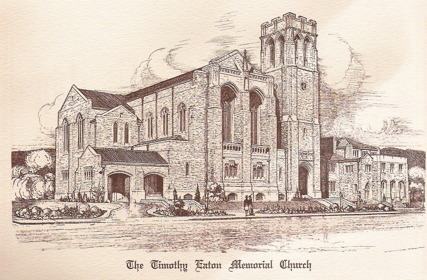 Sketch of Timothy Eaton Memorial Church, Toronto, Ontario, Canada.